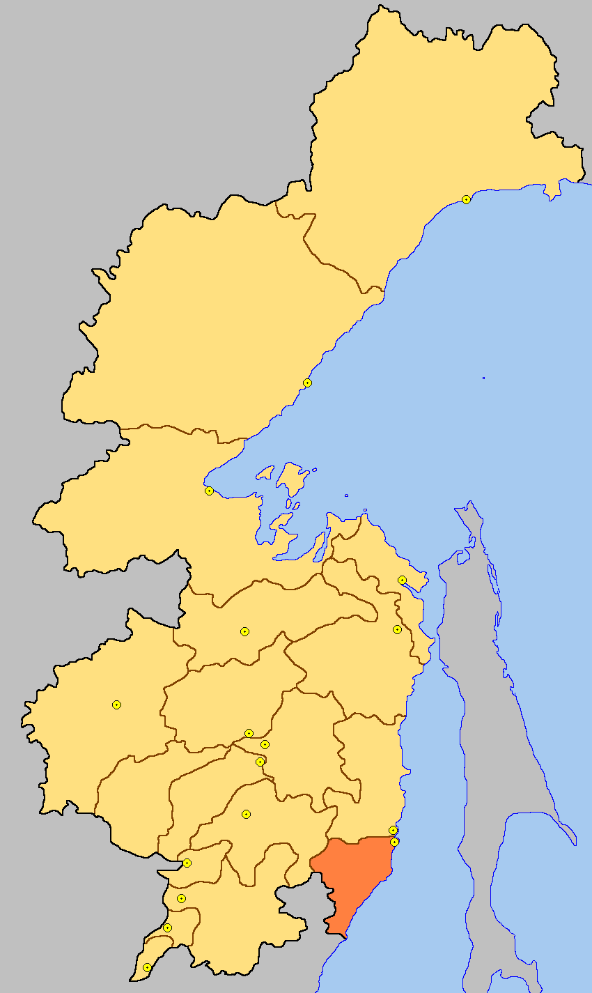 Sovetsko-Gavansky district on the map of Khabarovsk kray